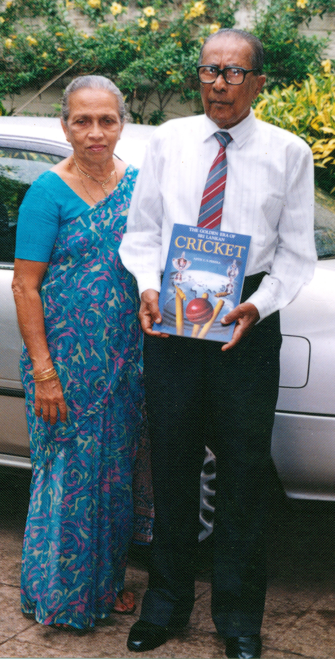 Taken by SELF in Colombo on 1999 May 12 of Perera's parents on their way to a ceremony.